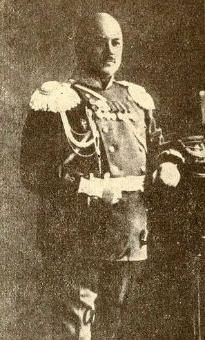 Lebedev, Dimitry Kapitonovitch - Russian and Estonian Major general of General Staff.